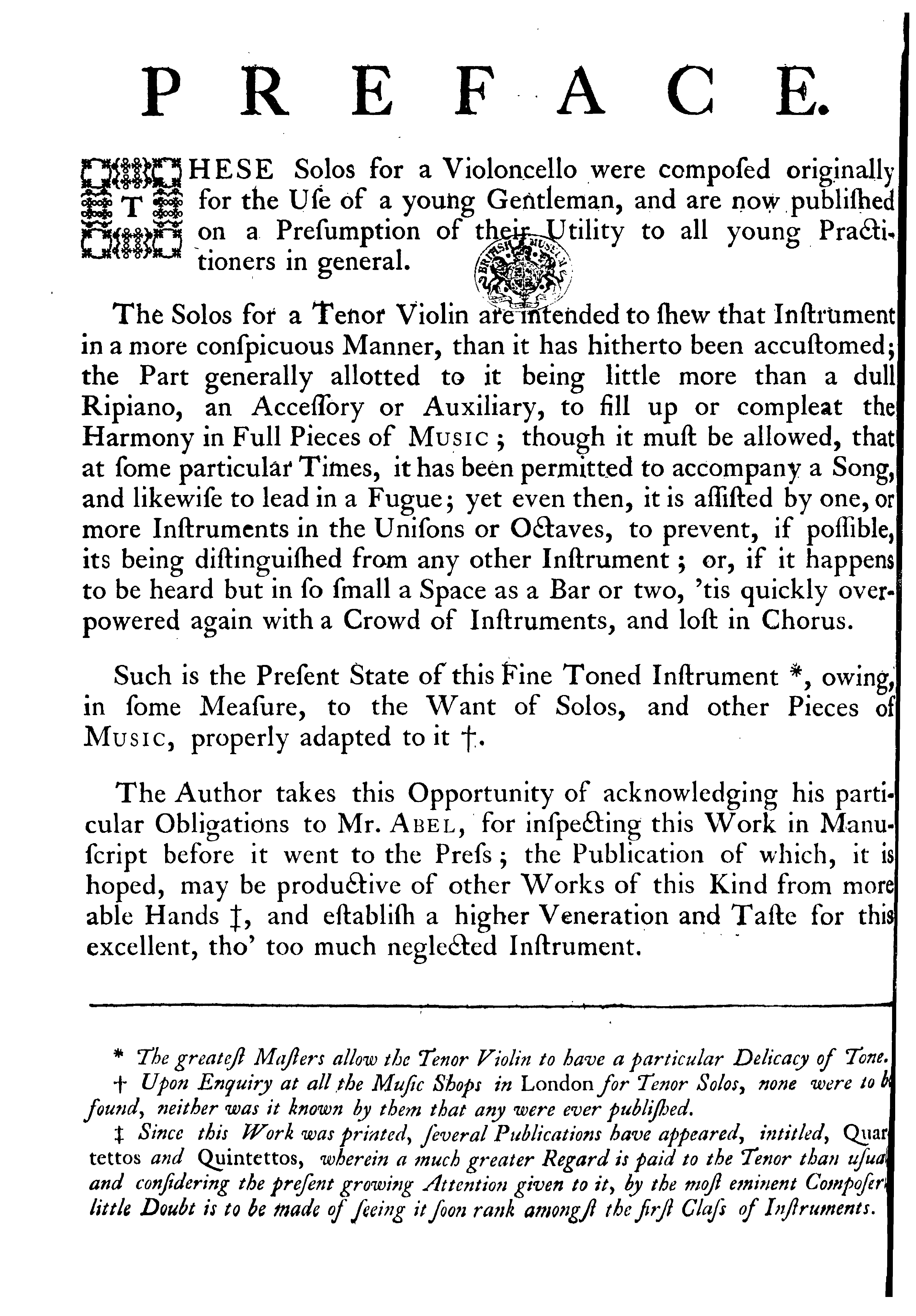 Preface of the six sonatas (three for cello and three for viola) by William Flackton.